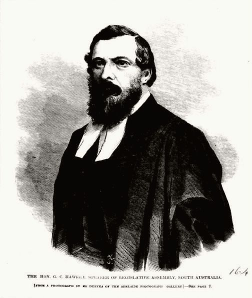 1865 lithograph after a painting of George Charles Hawker, Australian politician.